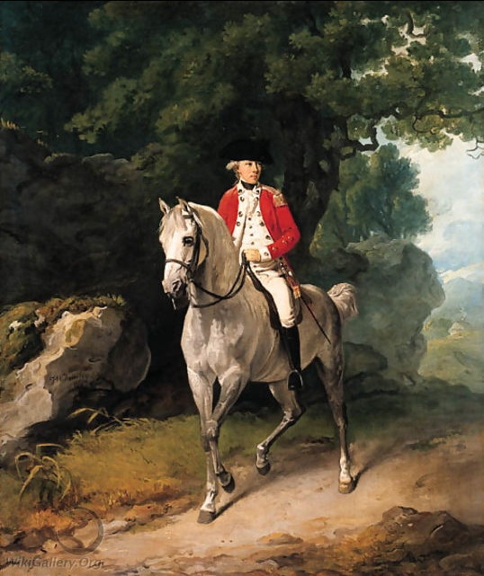 Portrait of Sir Henry Pigot